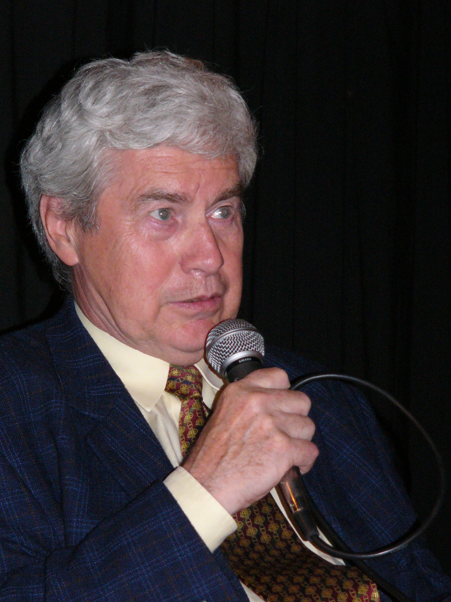 Czech astronomer Jiří Grygar. (Red eyes efect reduced.)